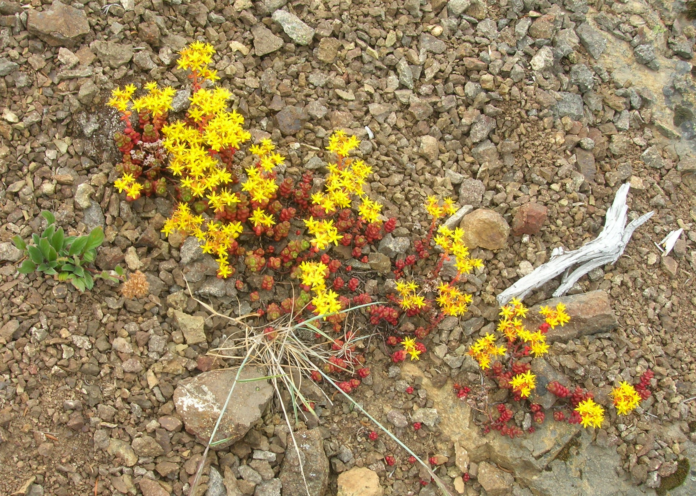 Sedum divergens Crassulaceae Dicot Pacific stonecrop, spreading stonecrop Rainier Vista Trail 1155, Pierce County, Washington, USA Scree Slope Elevation ~ 6200 feet (1900 m.) 22 July 2006 i072206 281